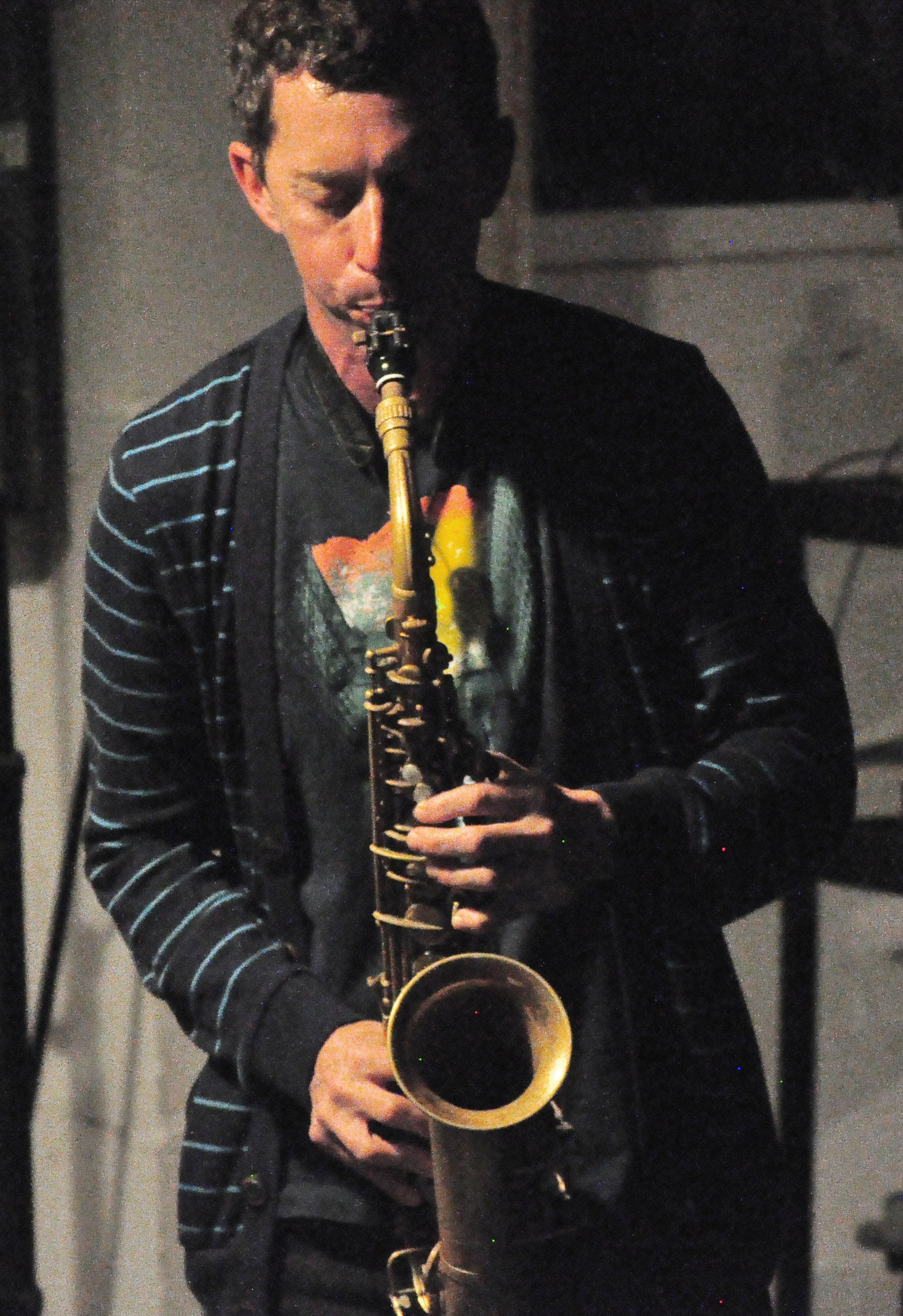 Saxophonist, improviser and composer Aram Shelton performing with his Ton Trio at the 20th Olympia Experimental Music Festival, Olympia, Washington, June 2014.